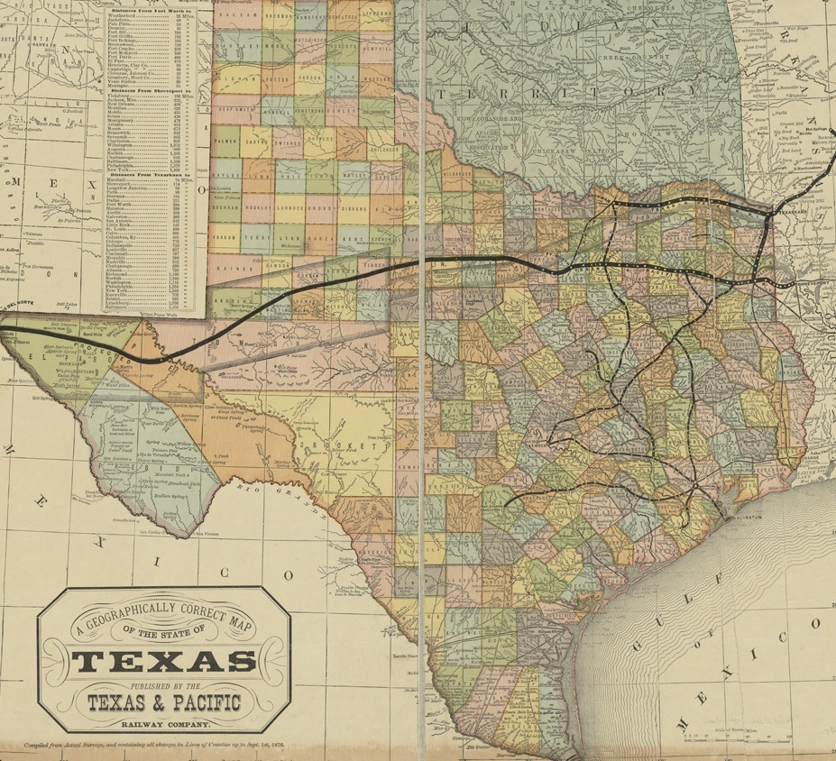 Zoom into at Author: Texas & Pacific Railway Publisher: Texas & Pacific Railway Date: 1876 Location: Indian Territory, Oklahoma, Texas, United States Dimensions: 34 x 66 cm. and 46 x 51 cm., on sheet 105 x 72 cm. Scale: [ca. 1:2,600,000] and [1:5,955,840] Call Number: G4031.P3 1876 .T49